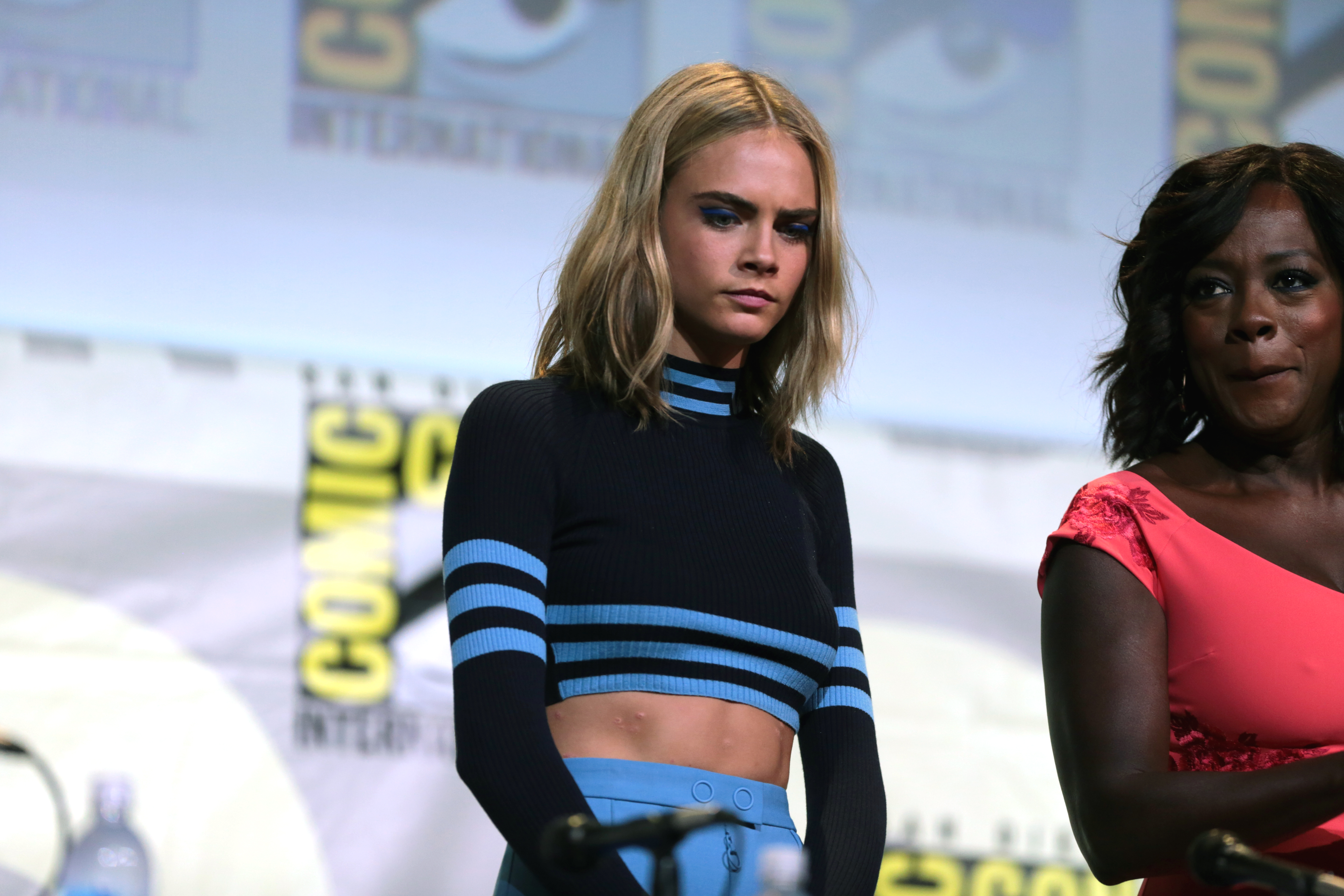 Cara Delevingne speaking at the 2016 San Diego Comic Con International, for "Suicide Squad", at the San Diego Convention Center in San Diego, California.